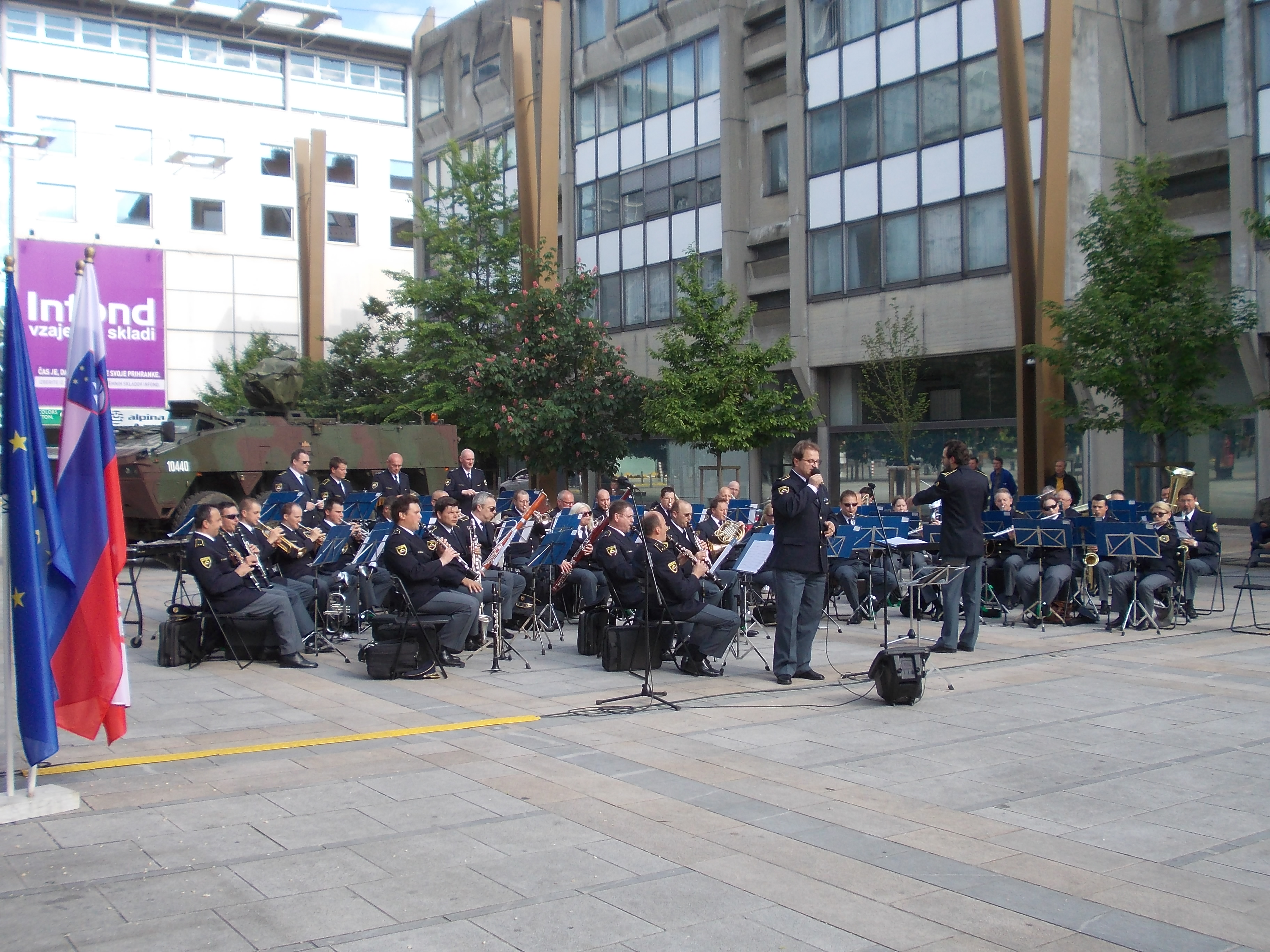 Police Orchestra (Slovenia) on Trg Leona Štuklja, Maribor, on the occasion of 25. anniversary of Pekre events.